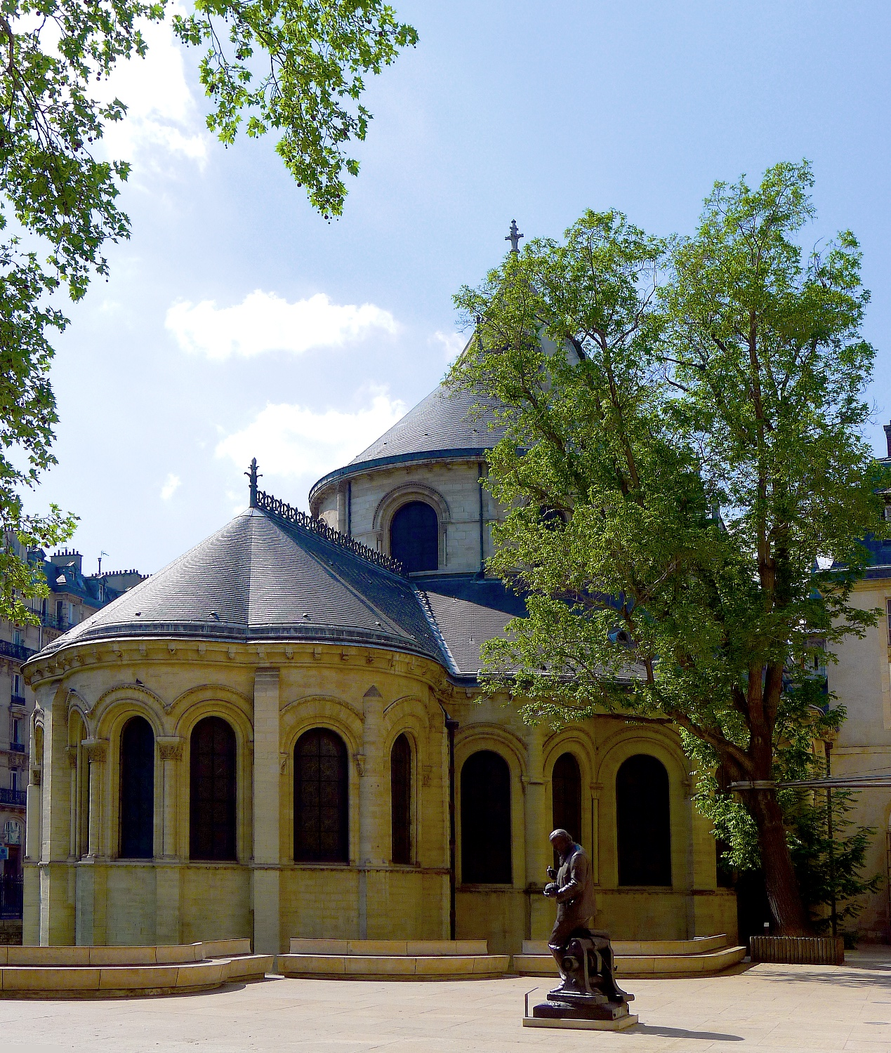 Général-Morin square - Paris